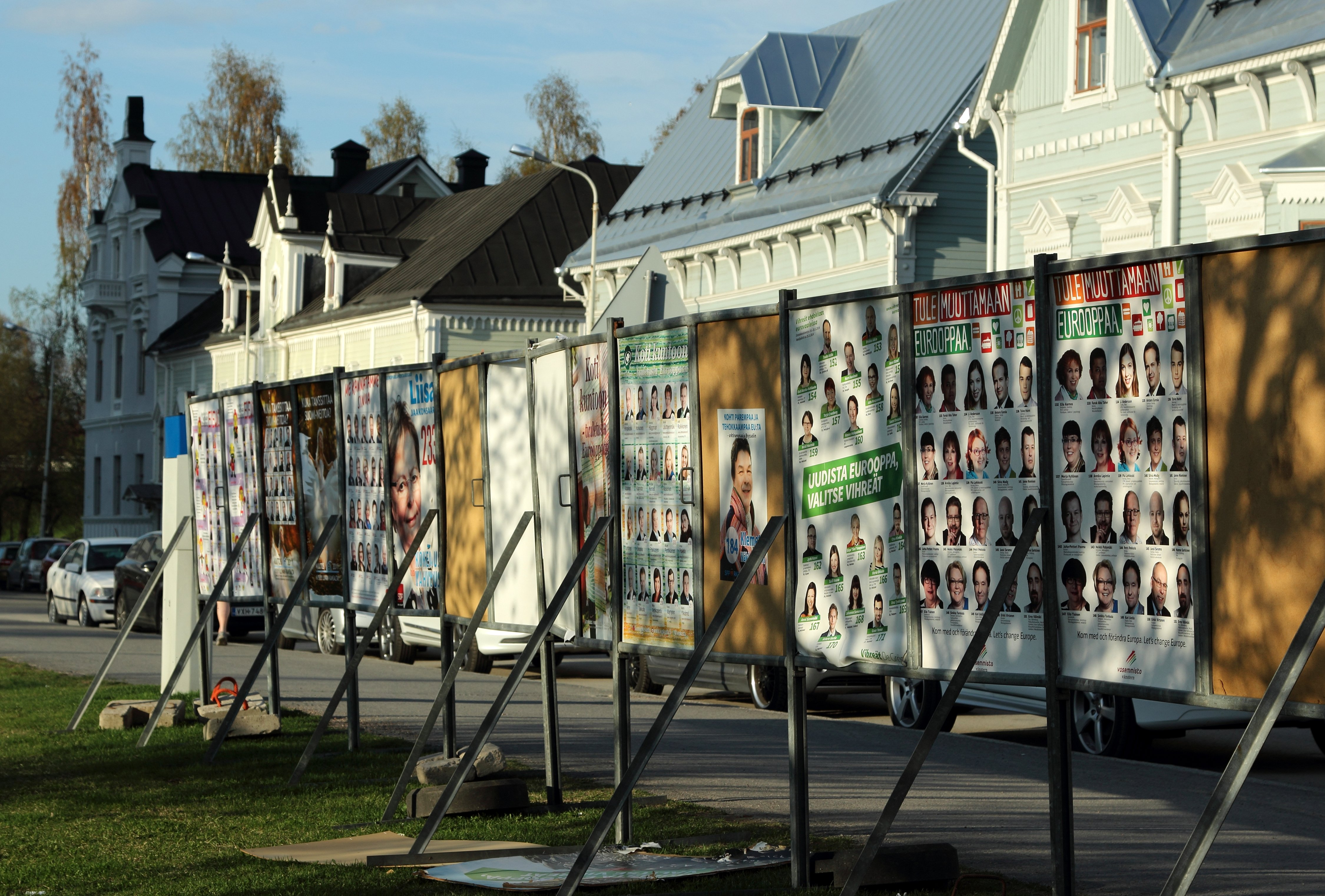 Election posters of the European Parliament elections on the Rantakatu street in Oulu, Finland.